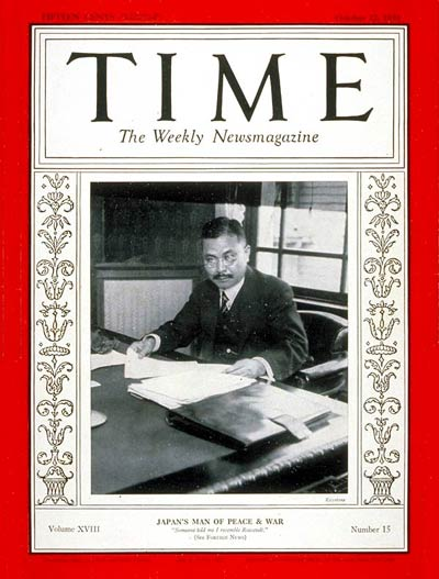 Kijuro Shidehara on «TIME» magazine cover.